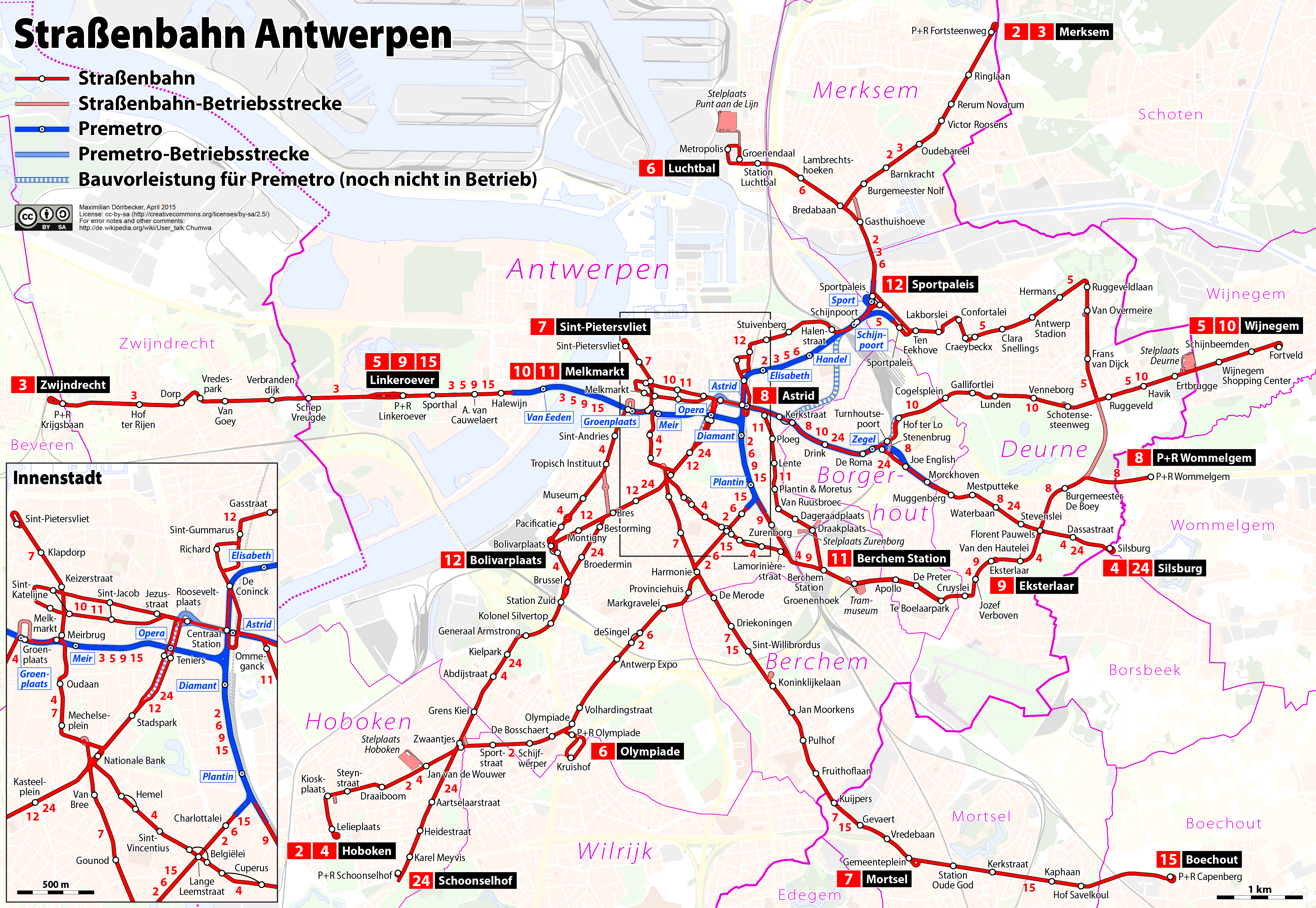 Map of the Antwerp tramway in 2015.